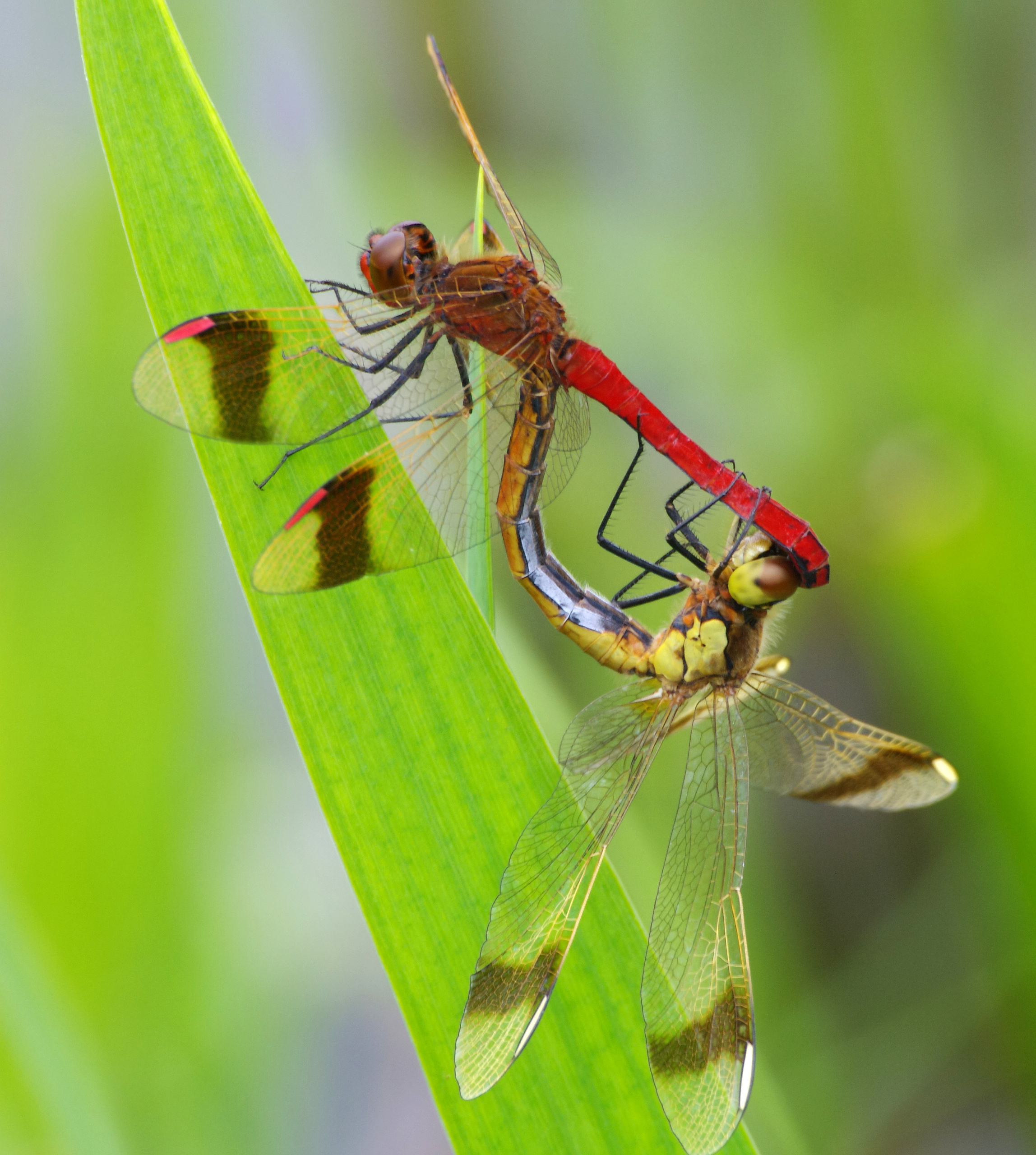 The dragonfly Banded Darter, Sympetrum pedemontanum, pair mating.